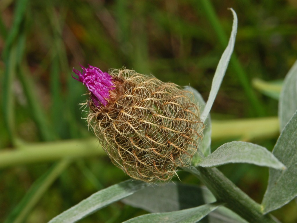 Centaurea uniflora - Parque des Ecrins, France